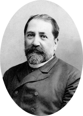 Georgian author (etc.) Ilia Chavchavadze